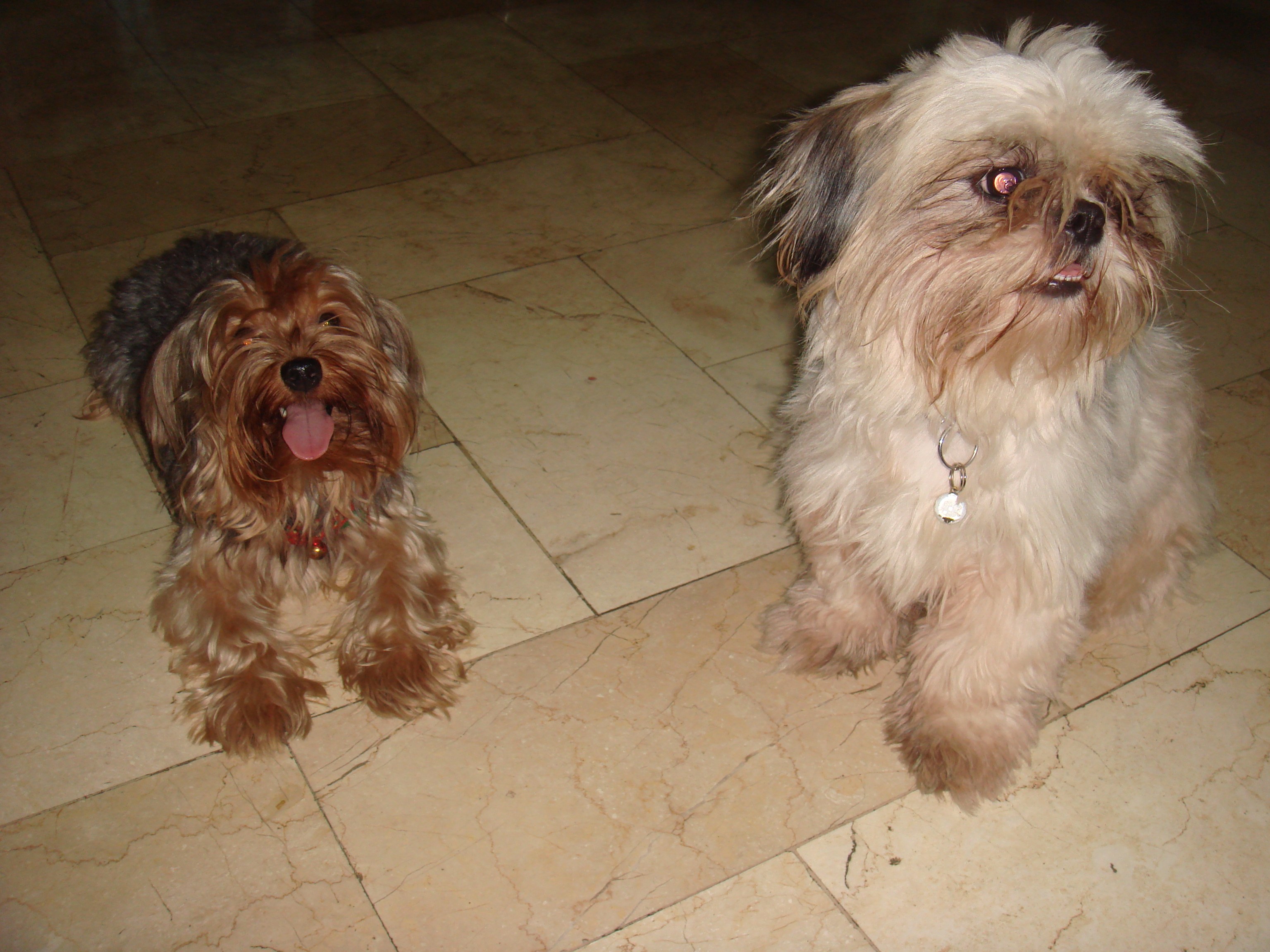 Yorkshire Terrier and Shih Tzu dogs